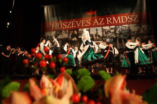 RMDSZ 20